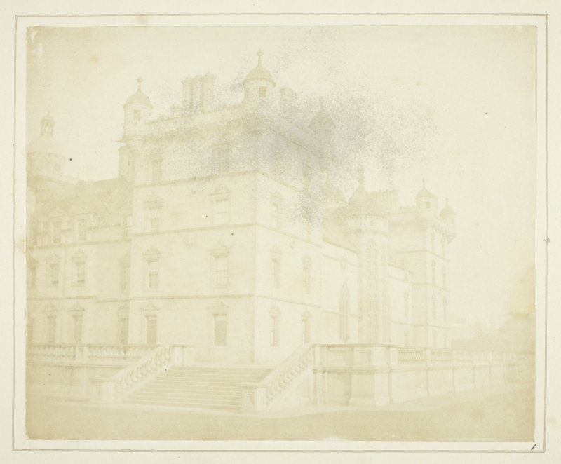 Salted paper print by Henry Fox Talbot, plate I from the album "Sun Pictures in Scotland" (1845)